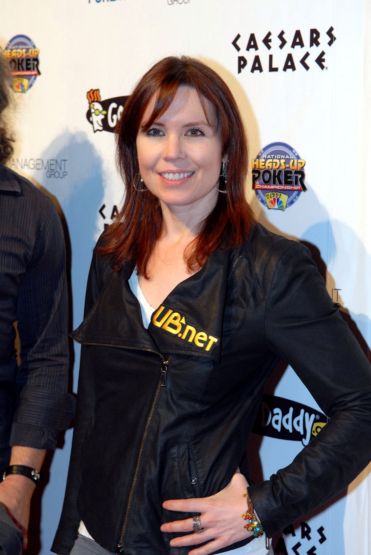 Annie Duke at the 2010 NBC National Heads-Up Poker Championship